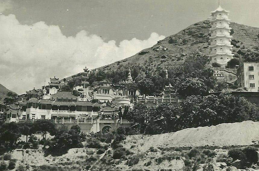 The Tiger Balm Garden, a "theme park" of that era and similar to the one in Singapore, but long since demolished and replaced with housing for growing Hong Kong.